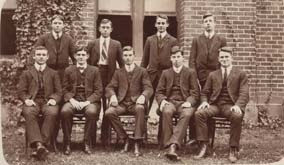 Taken From - [1]